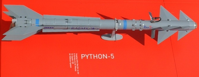 Python 5 at Salon du Bourget 2011.